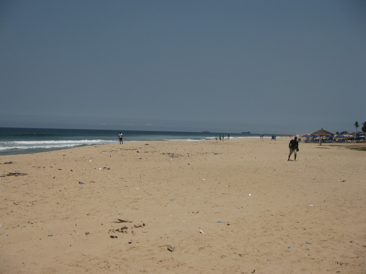 Beach of Pointe-Noire of Congo Brazza 中文（中国大陆）: 刚果（布）黑角的海滩